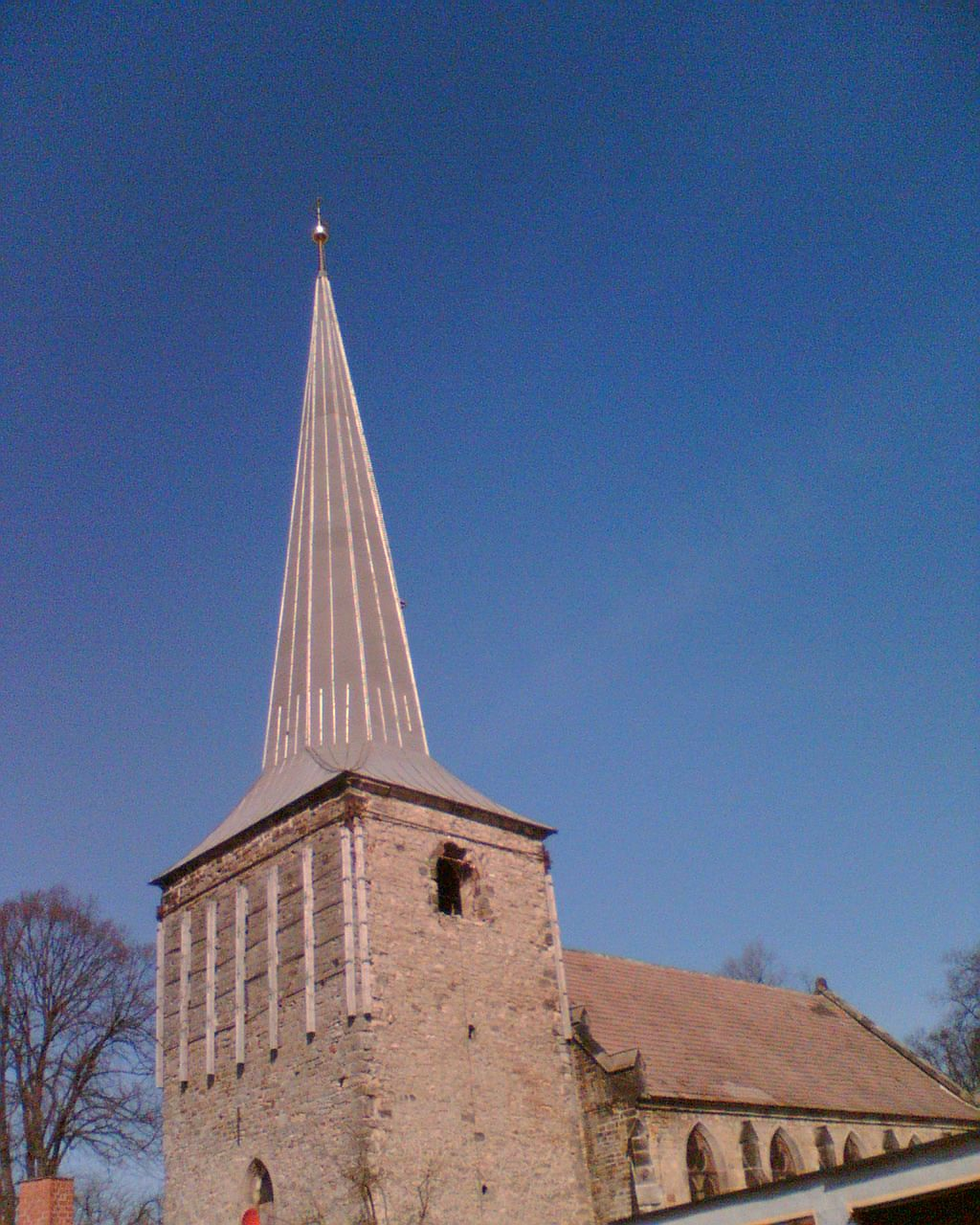 Barneberg church with medieval tower, in German state Saxony-Anhalt